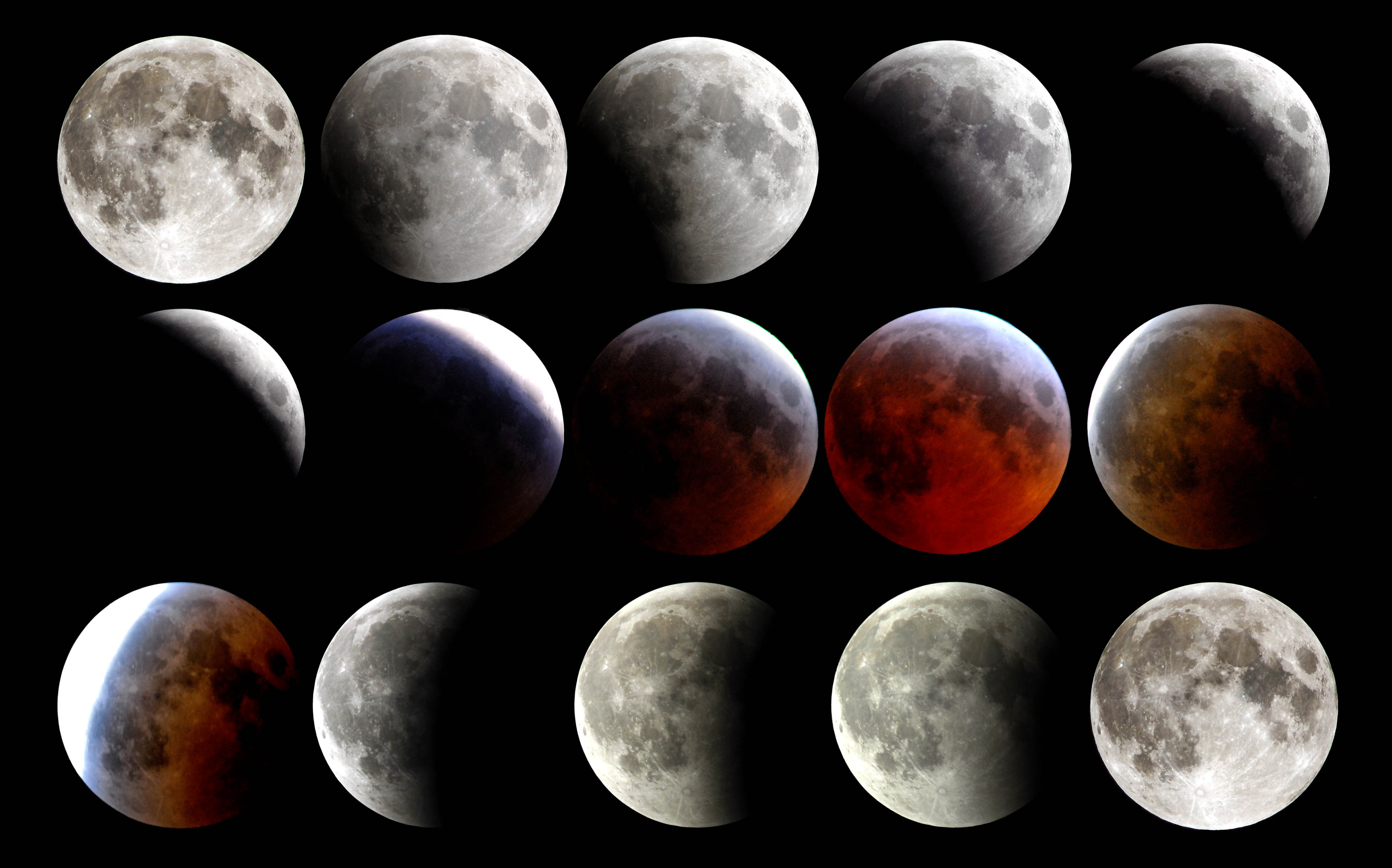 A series of images taken aboard the amphibious assault ship USS Boxer (LHD 4) shows the moon during a full lunar eclipse.